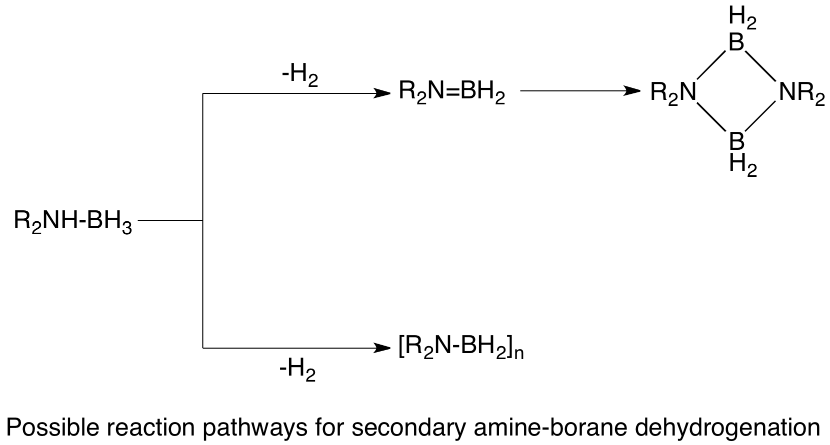 Reaction pathways for dehydrogenation of secondary amine-boranes